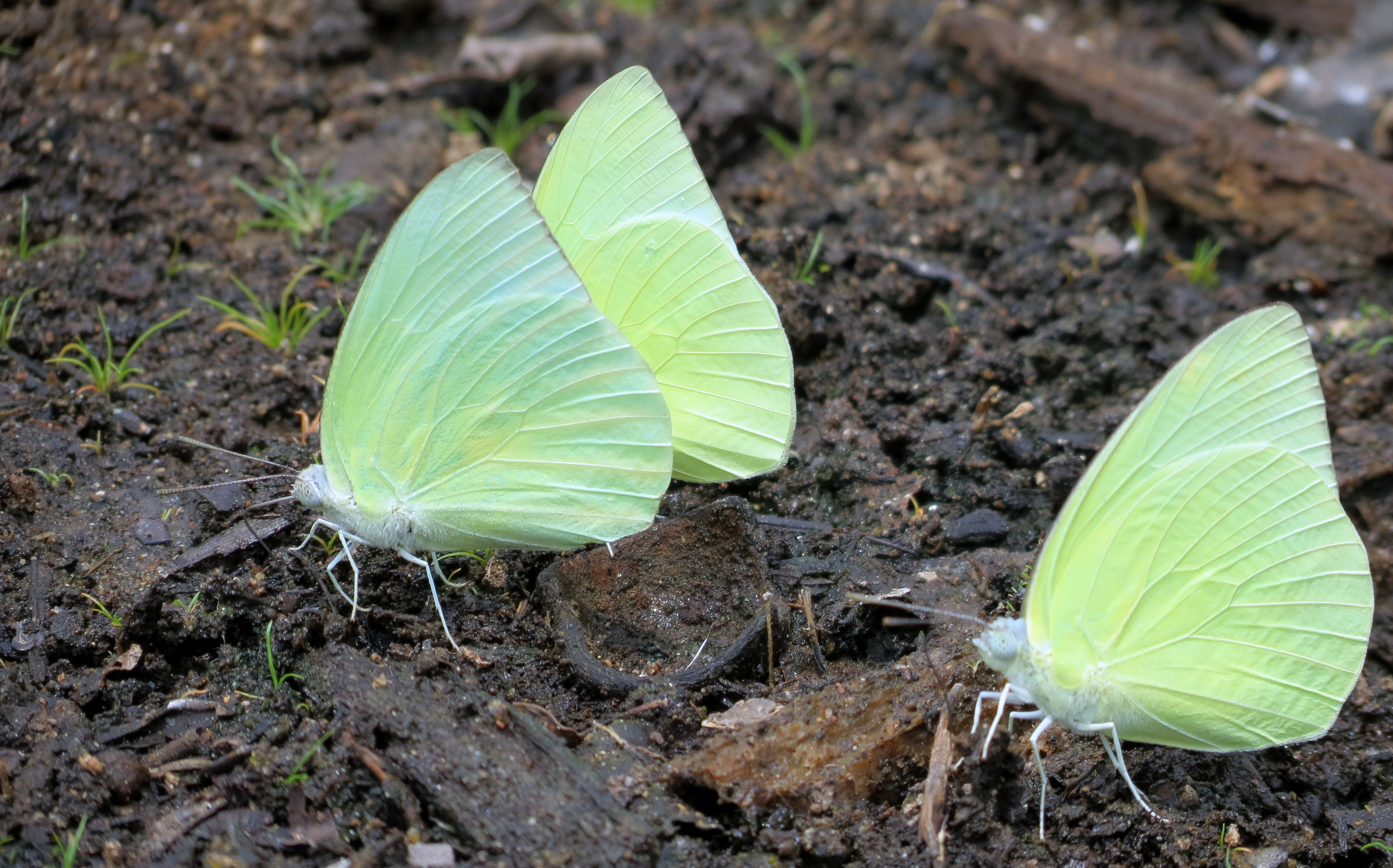 Lemon Emigrant or Catopsilia pomona from Pothundy Dam, Kerala, India